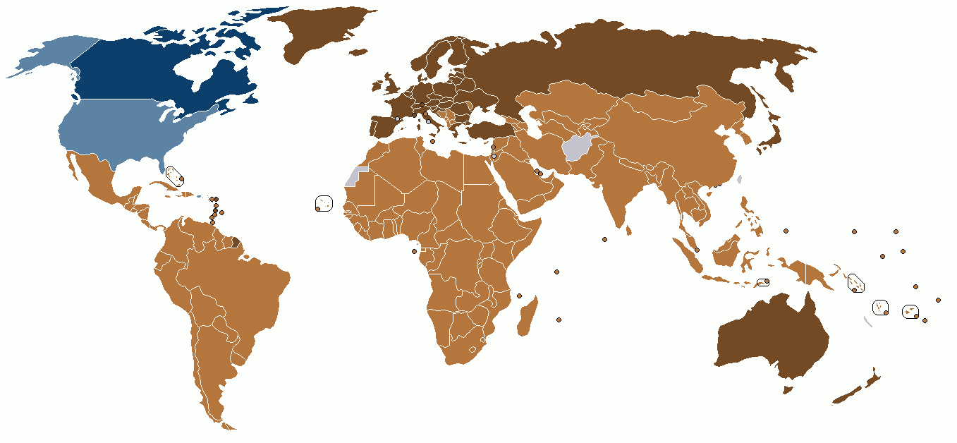 Participation in the Kyoto Protocol, as of December 2011: Brown = Countries that have signed and ratified the treaty (Annex I & II countries in dark brown); Blue = No intention to ratify at this stage (United Nations Framework Convention on Climate Change, 2011) . Dark blue = Canada, which withdrew from the Protocol in December 2011 (Vaughan, 2011); Grey = no position taken or position unknown. Reference 1: Vaughan, A. (2011): What does Canada's withdrawal from Kyoto protocol mean? Canada has shown that a legally binding deal does not guarantee countries won't walk away from their commitments; Publisher: Access date:2011-12-17. Reference 2: United Nations Framework Convention on Climate Change (UNFCCC, 2011): Kyoto Protocol. Publisher: UNFCCC; Access date: 2011-12-09.